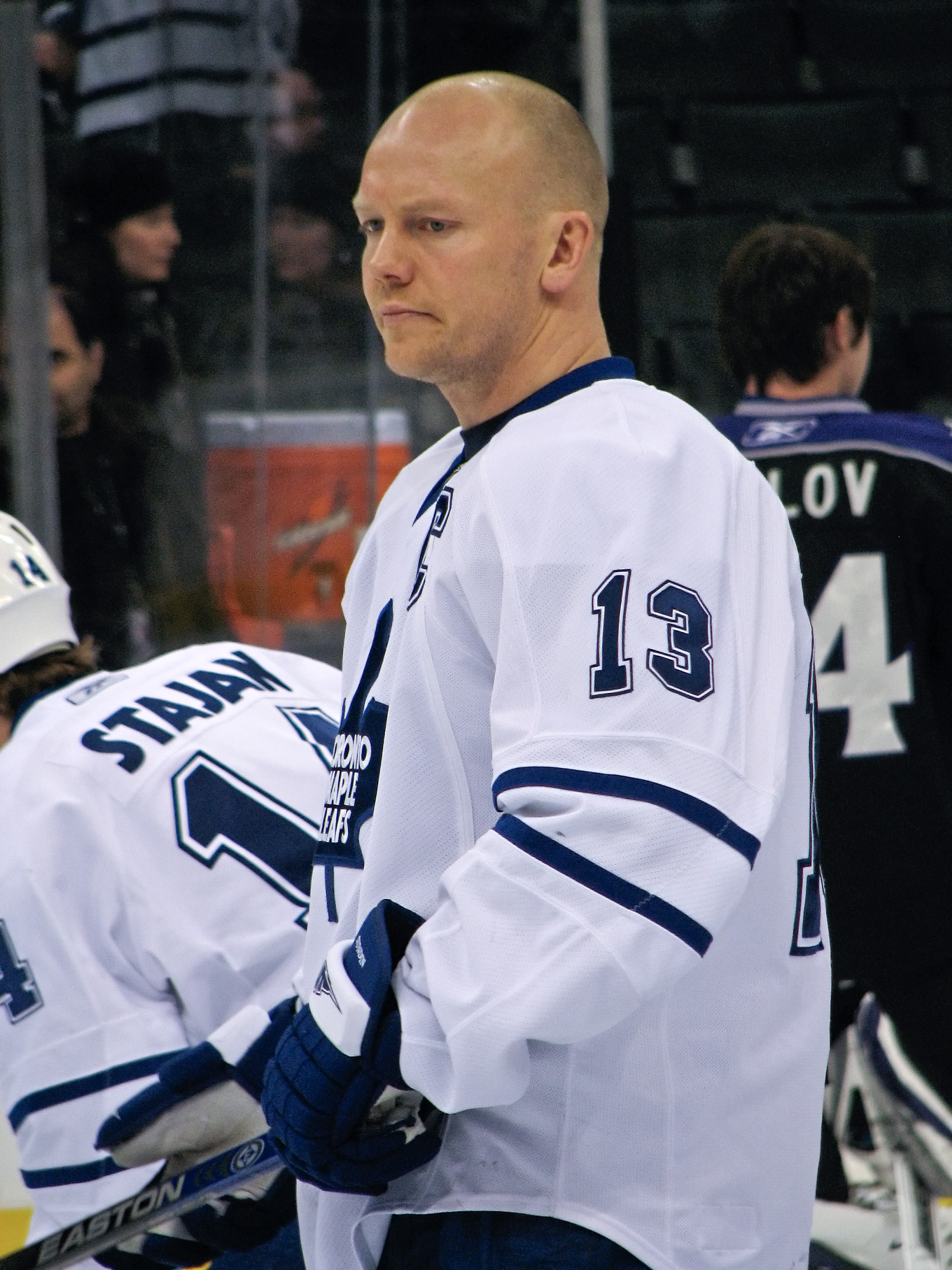 Mats Sundin warming up in a January 10, 2008 game vs the Kings